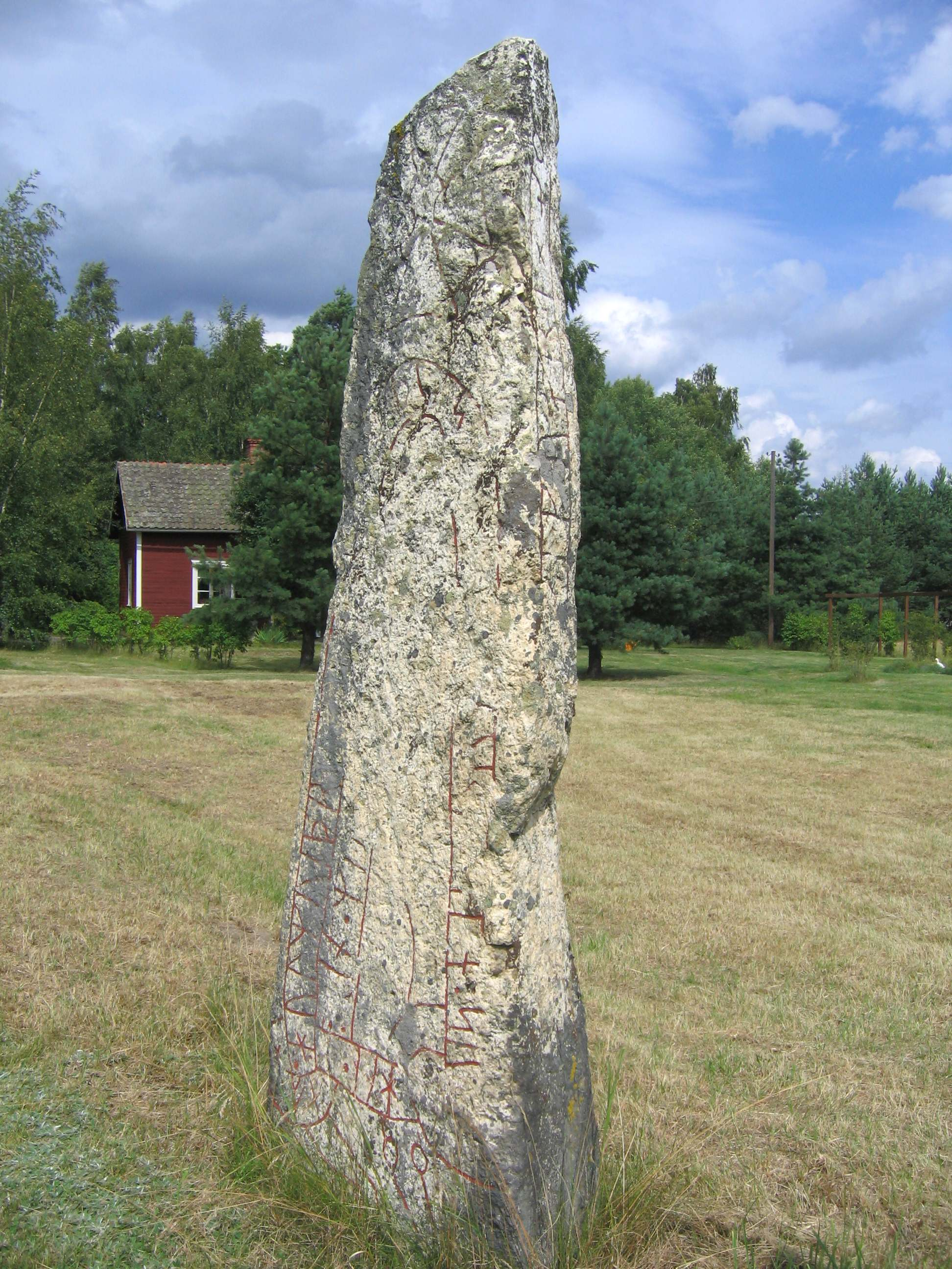 Runestone Sö 105 in Högstena, Kjula parish, Eskilstuna